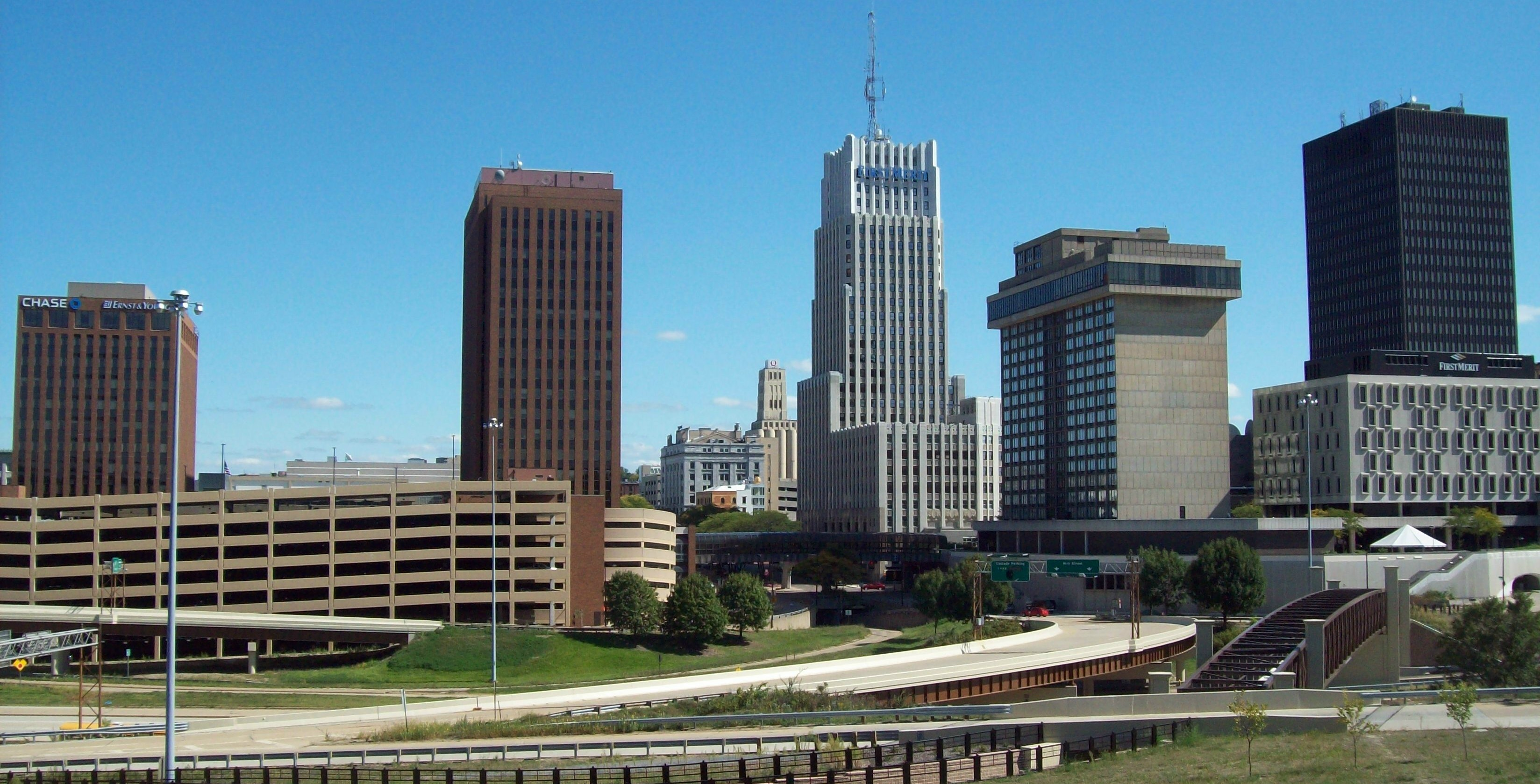 Akron, Ohio